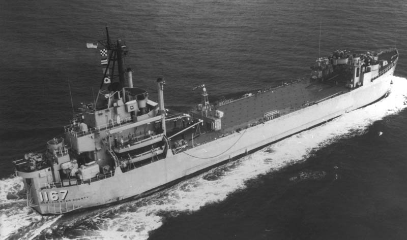 USS Westchester County (LST-1167) underway, date and place unknown. The Photograph appears to be prior to the 1967 overhaul: changes made to the Bridge area during that overhaul are not present in the photograph.